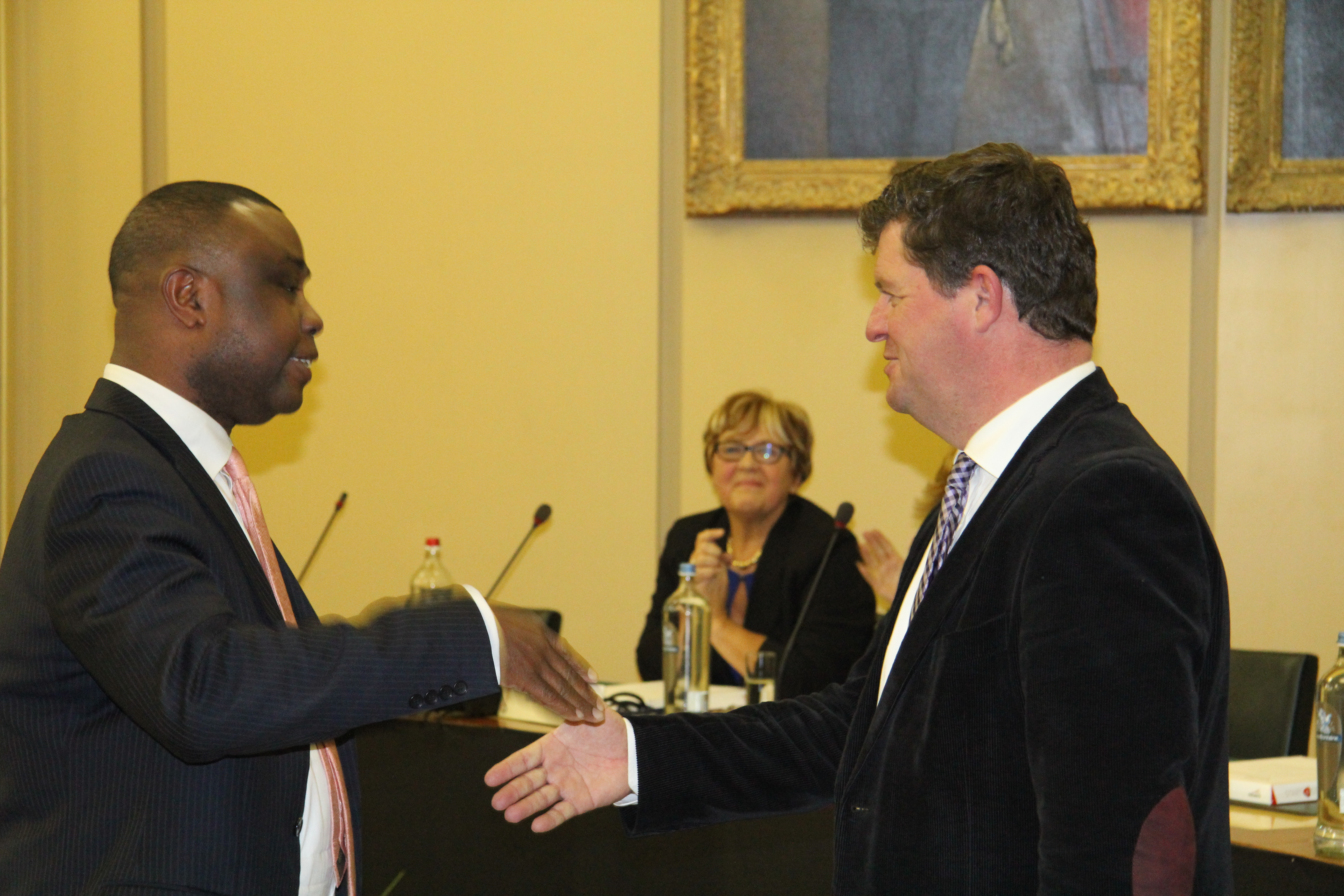 Collins Nweke with Council Chairman after Swearing-in